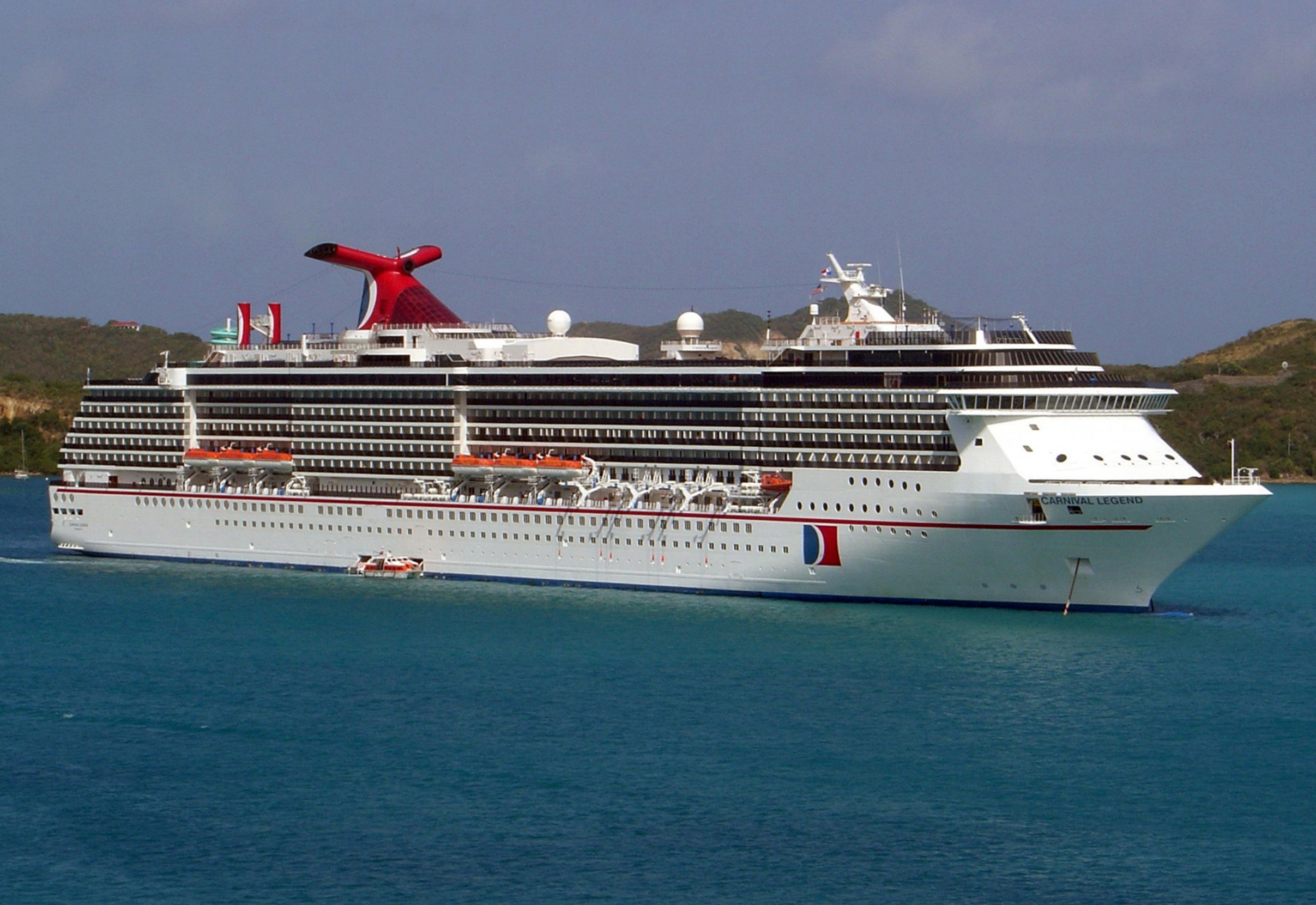 Anchored between St. Thomas and Tortola.